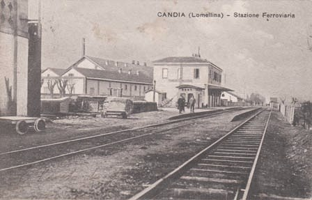 Candia Lomellina railway station